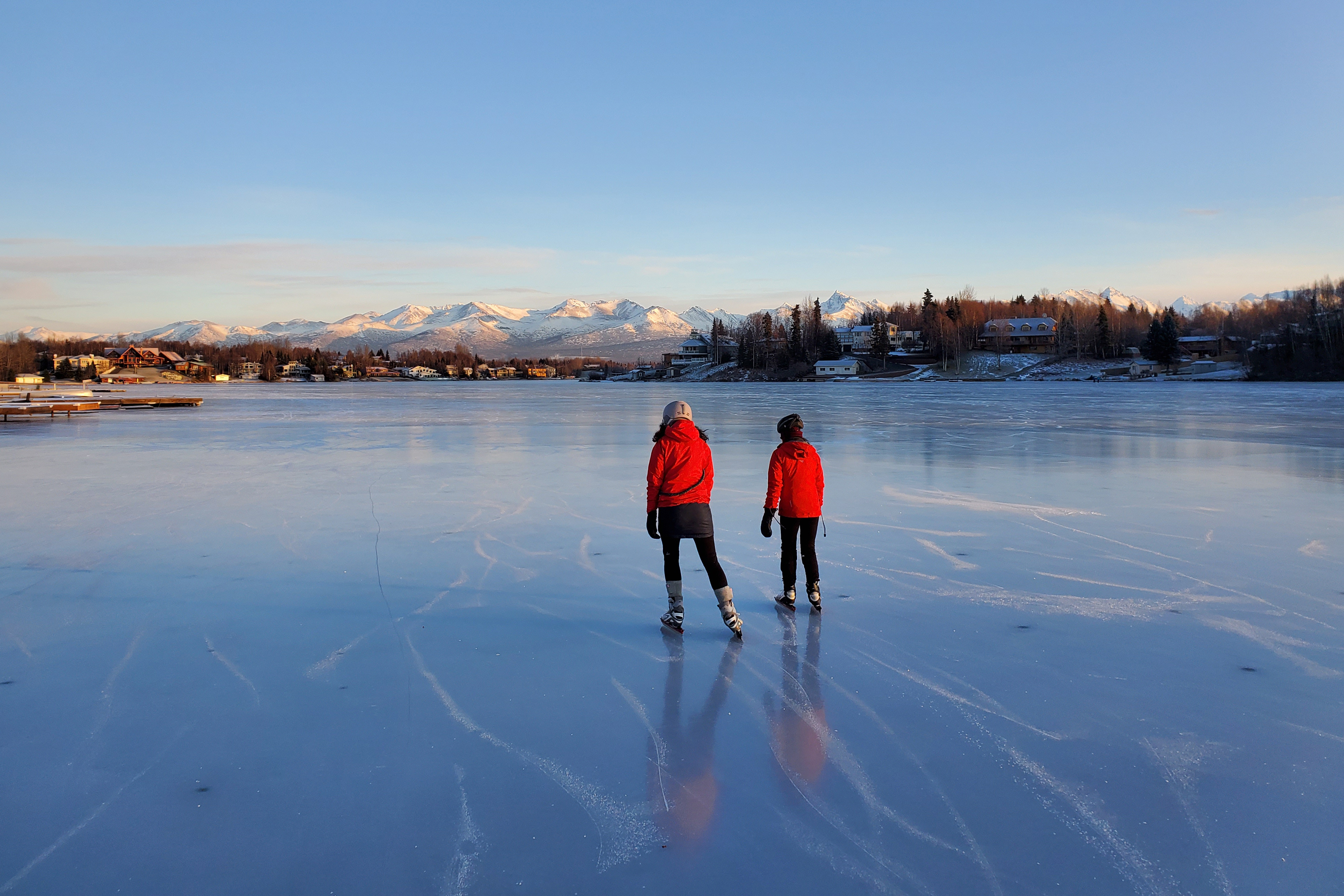 See "The bizarre story of Campbell Lake, the private lake that isn't," an Alaska Landmine Special Feature by Jeff Landfield and Paxson Woelber. This photo is provided under a Creative Commons Attribution license. Please provide the following credit: "Photo used under Creative Commons license courtesy Paxson Woelber, The Alaska Landmine"